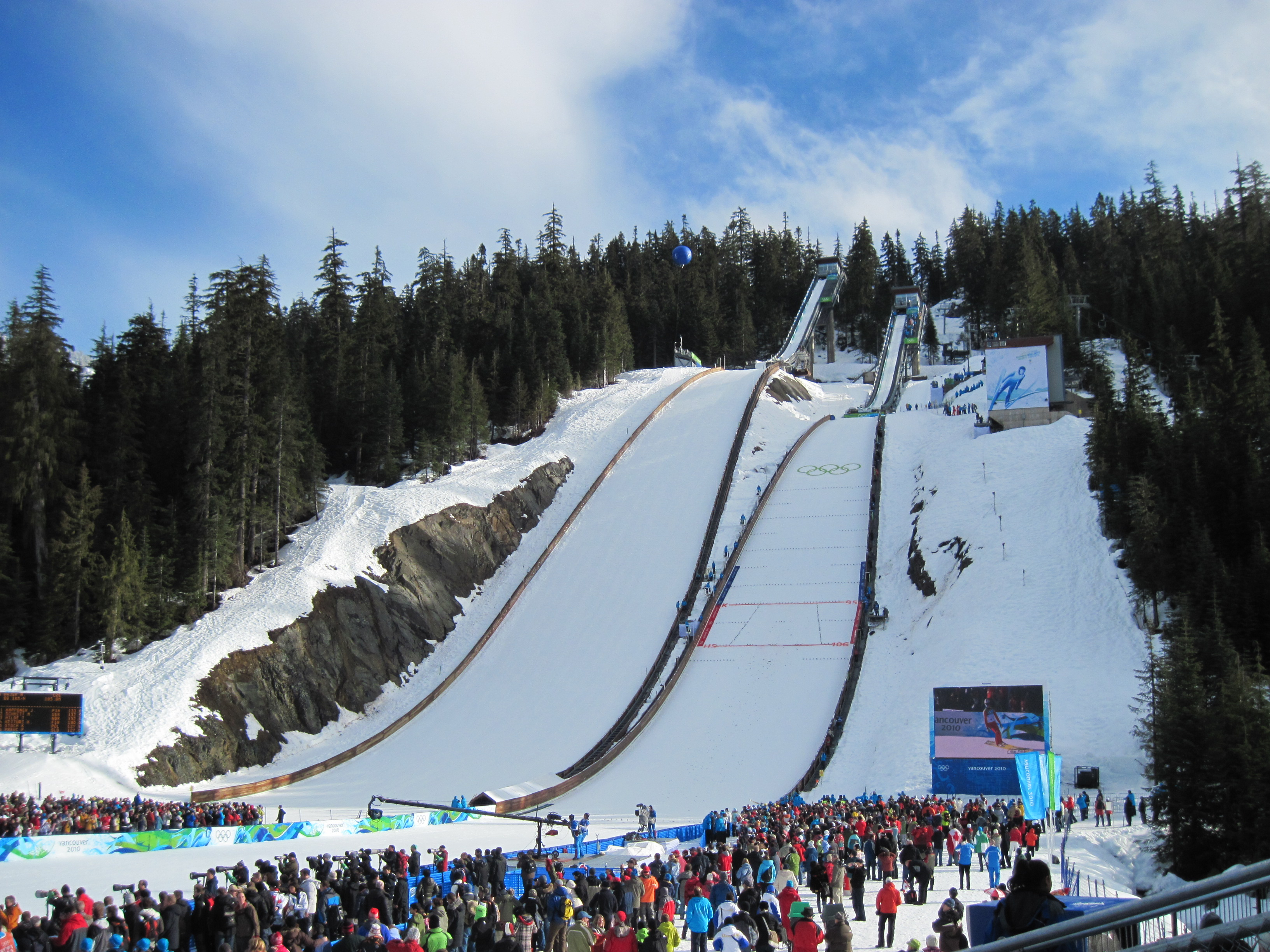 Whistler Olympic Park in Callaghan Valley, British Columbia, Canada.